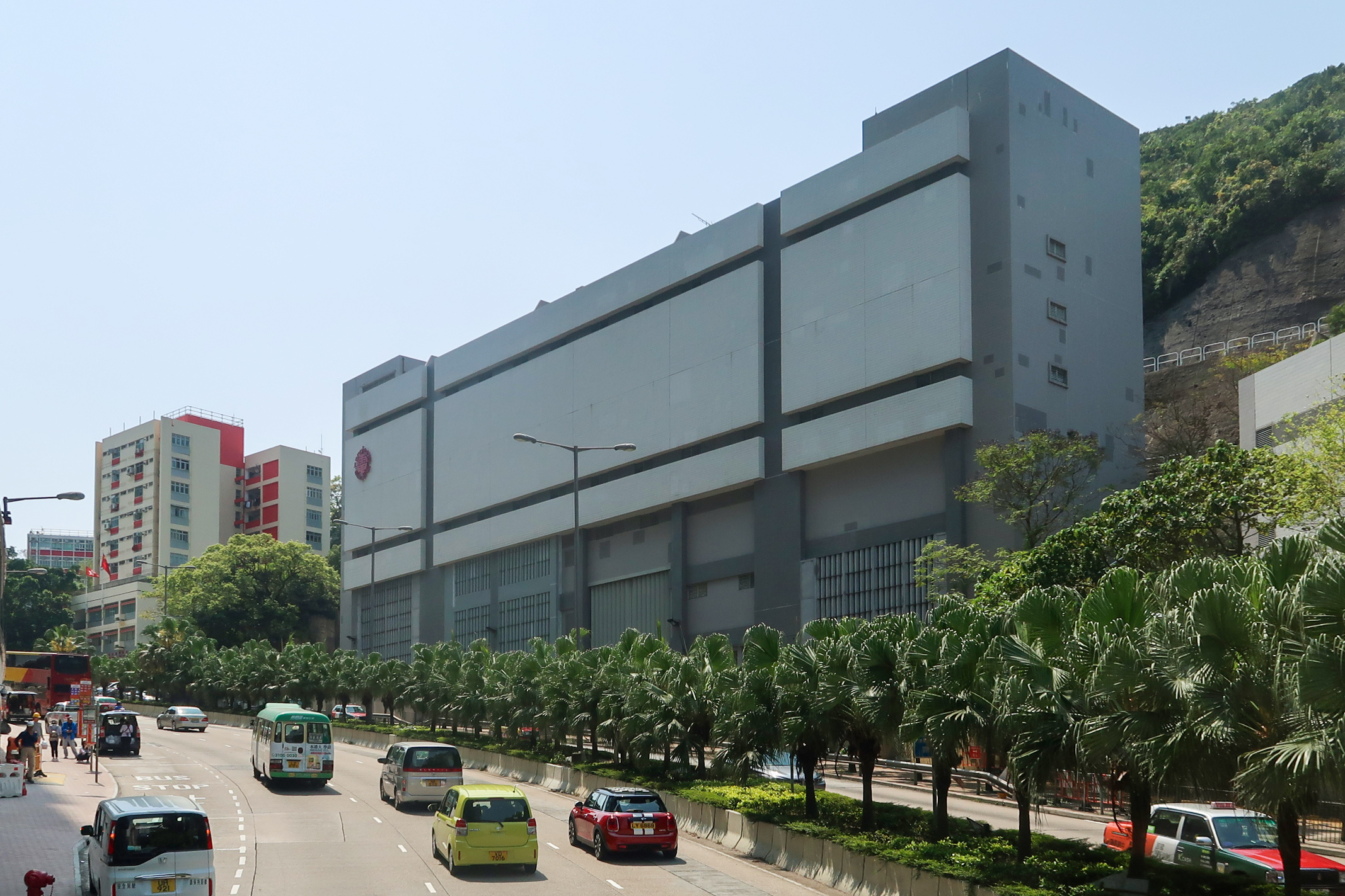 Hong Kong Electric Parker Substation